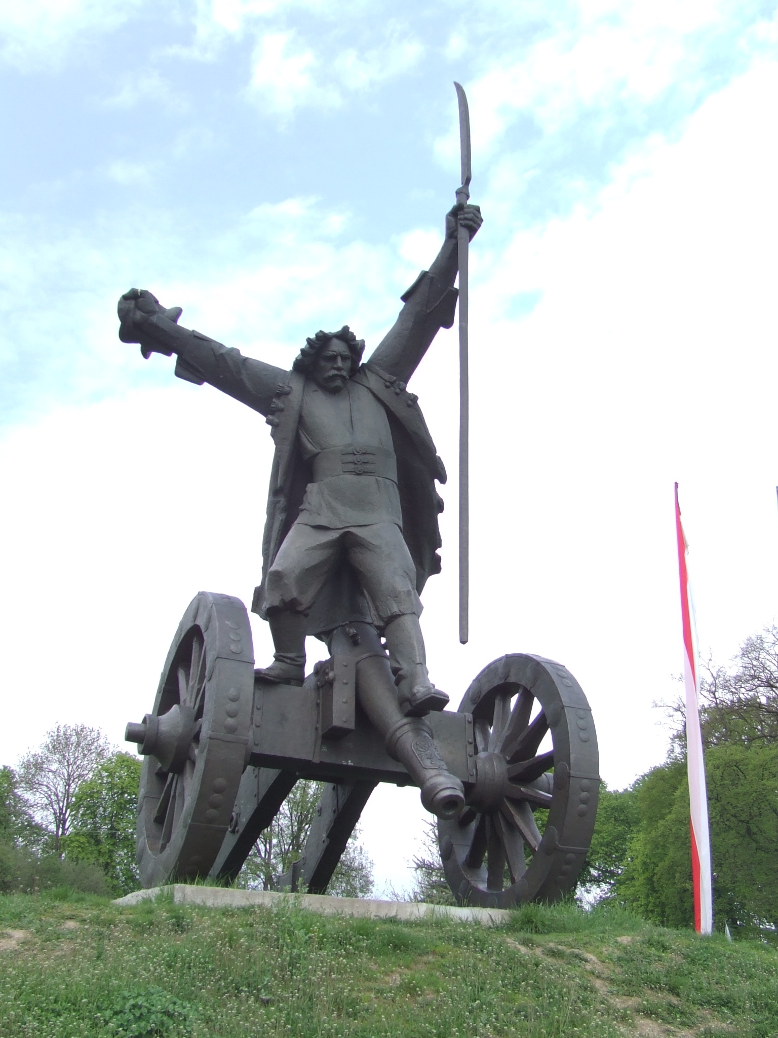 Janowiczki: the monument of Bartosz Głowacki